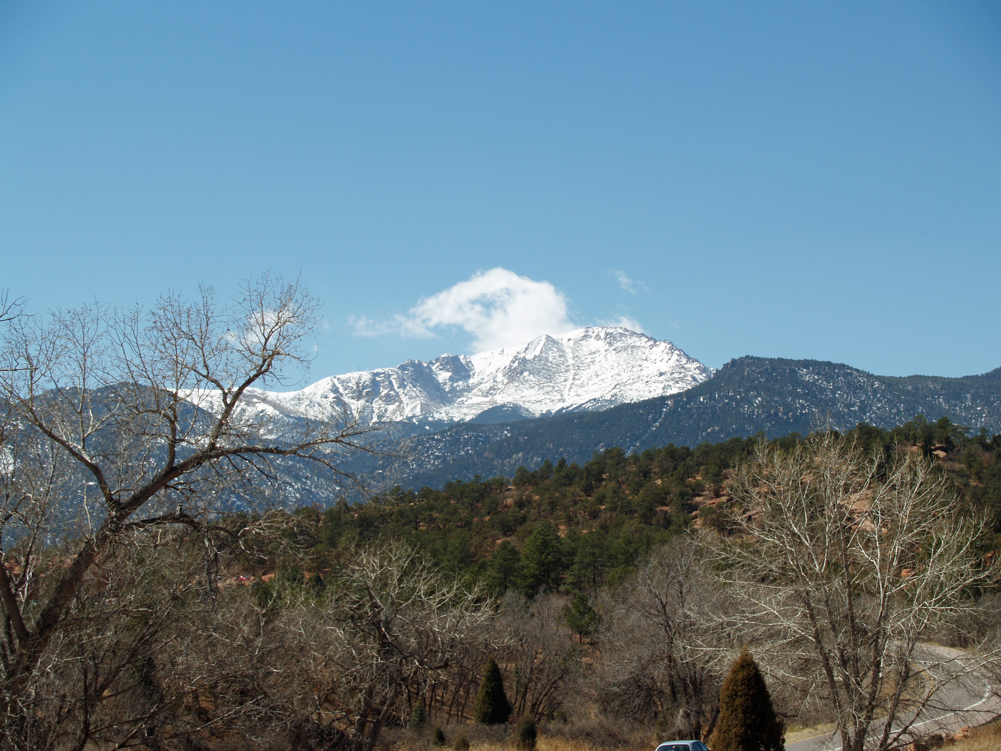 Pikes Peak seen from the Garden of the Gods in Colorado Springs.